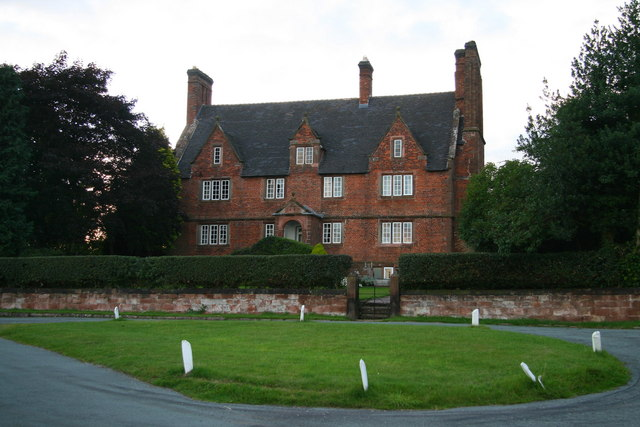 Forton Hall The year 1665 is carved above the front door.